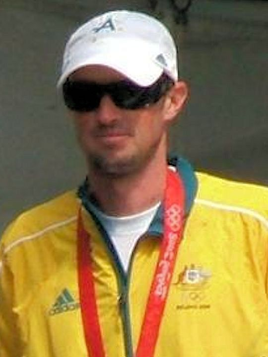 Nathan Wilmot at the 2008 Olympic homecoming parade in Adelaide